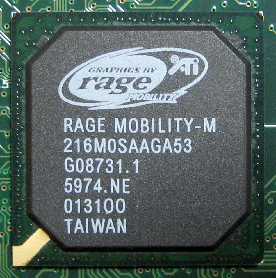 RAGE Mobility-M is ATI's graphic chip for laptop computers.